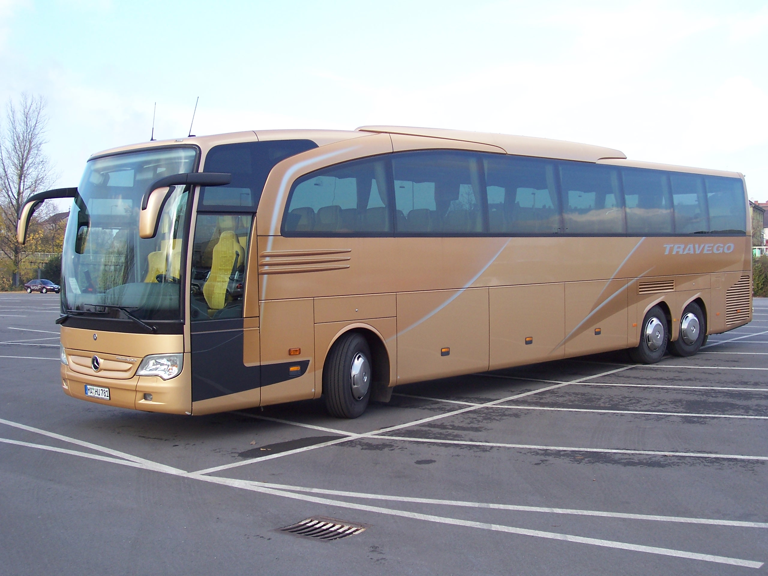 An EvoBus/Mercedes-Benz Travego L coach (reg. MA-HU 781) at MOT 2005 in Mannheim, Germany. My own photo from 19-nov-2005.